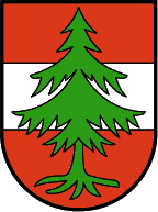 Wappen at bezau